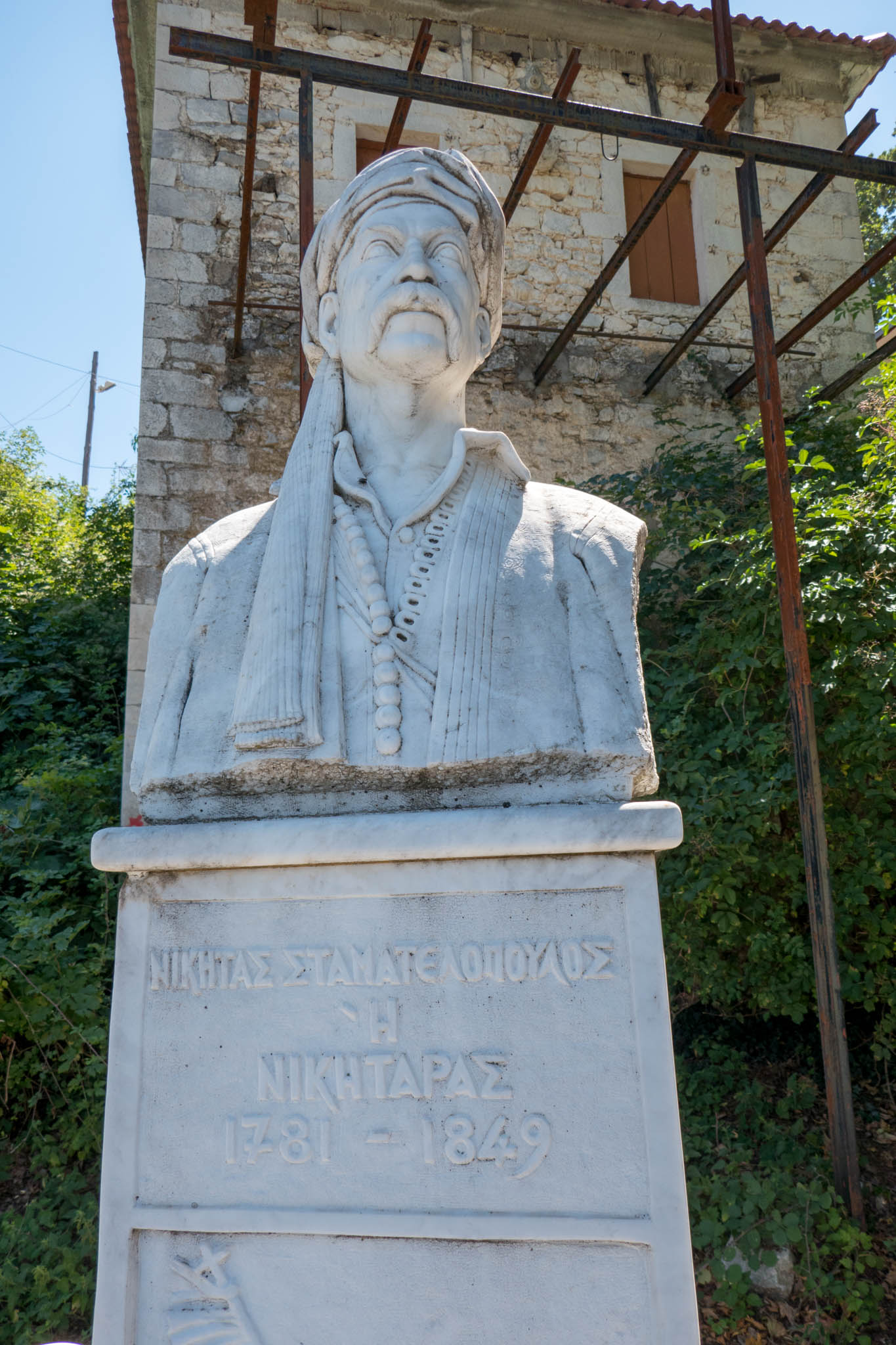 Bust of Greek hero Nikitaras in the village of Ano Doliana in Arcadia, Greece, where the Battle of Doliana took place.